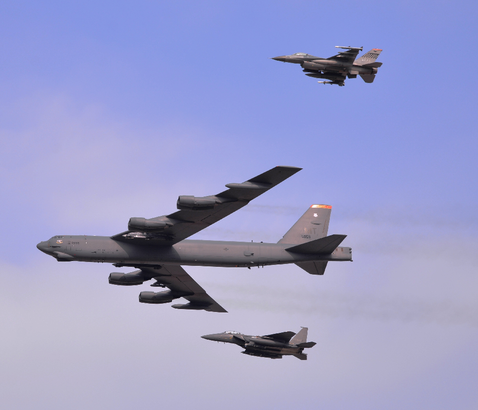 A B-52 overflies Korea in response to North Korean nuclear test